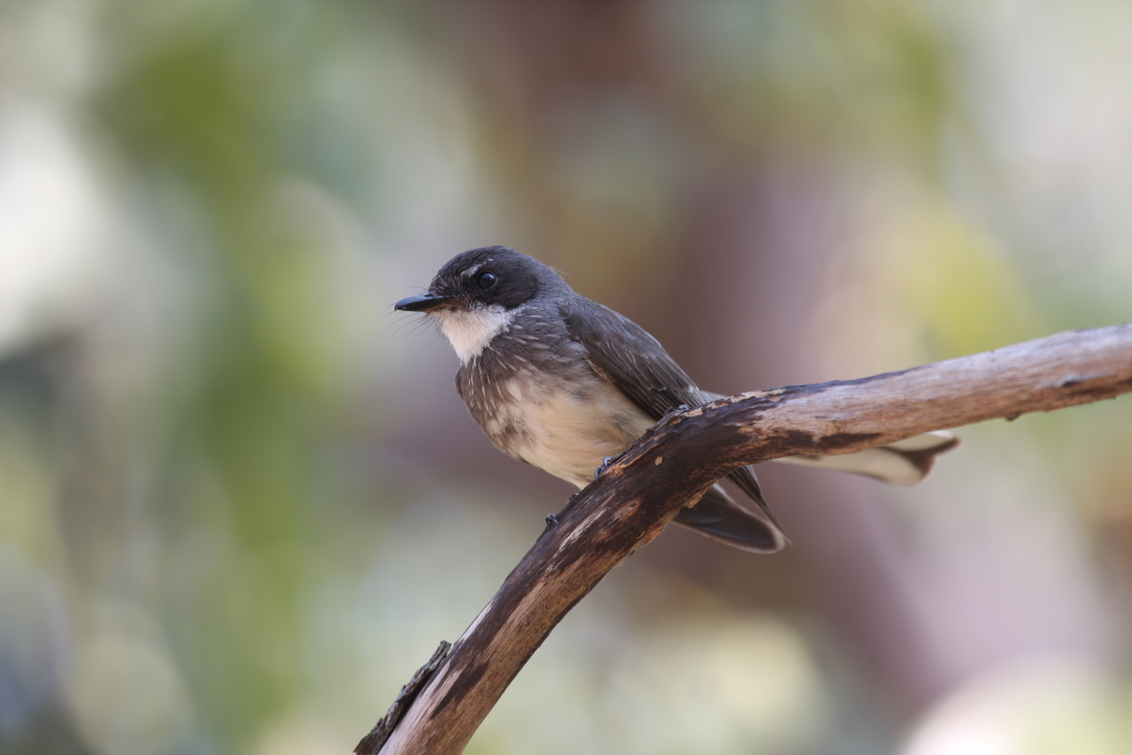 A Northern Fantail in Australia.